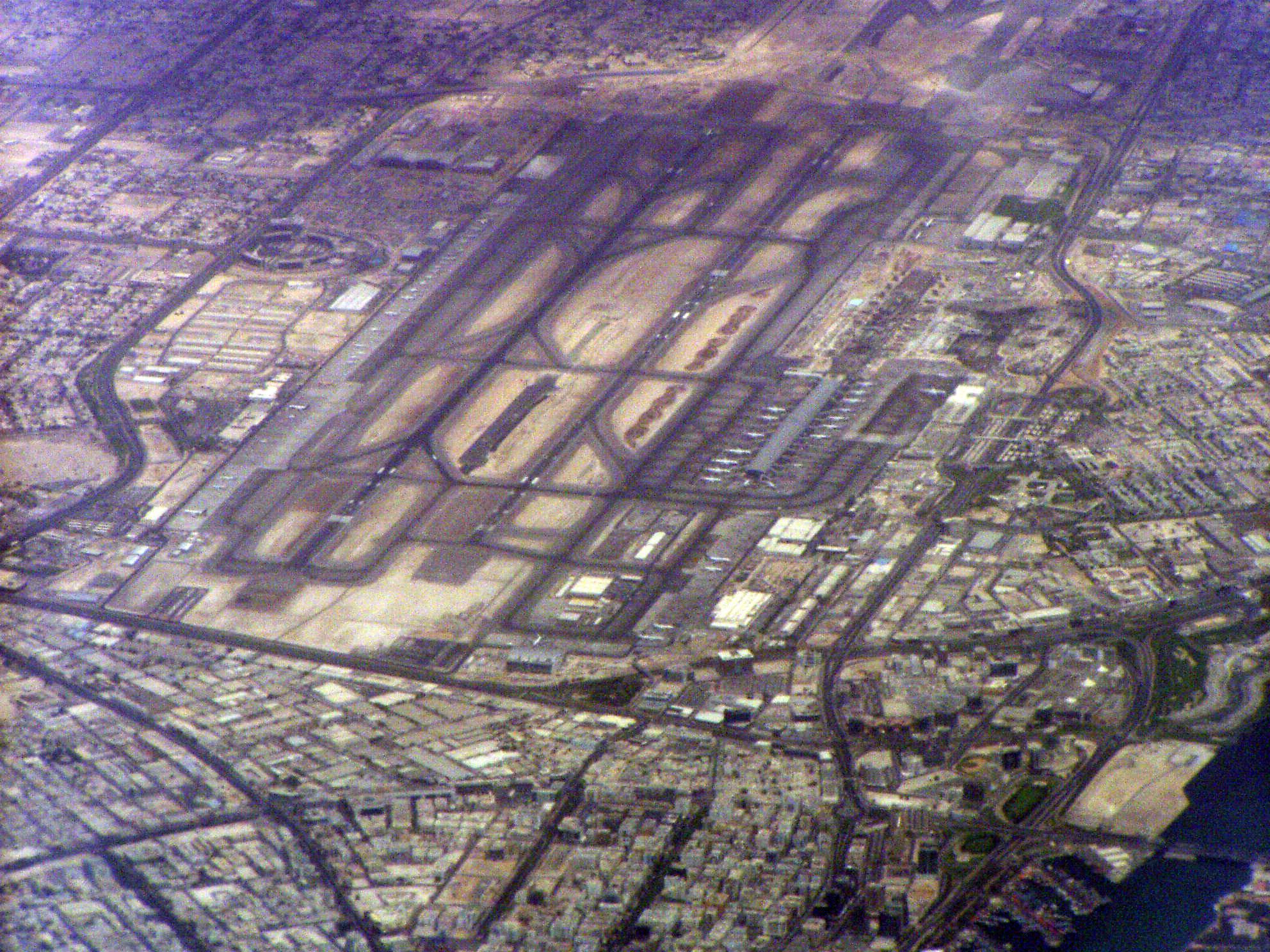 Dubai airport, United Arab Emirates - view from plane